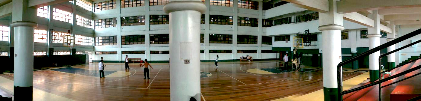 NCBA Gymnasium